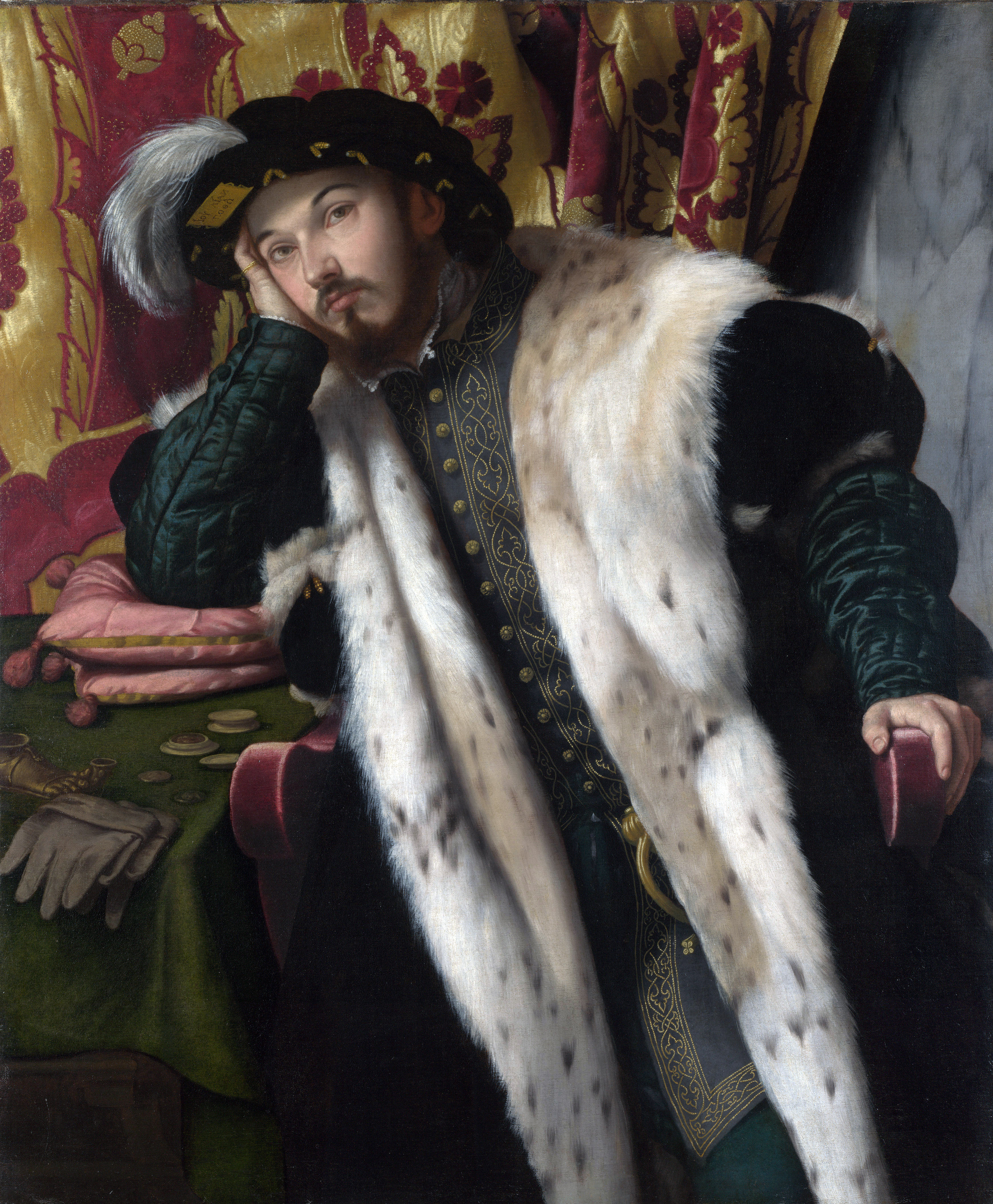 Count Sciarra Martinengo Cesaresco; sitter from Painters of Reality: The Legacy of Leonardo and Caravaggio in Lombardy edited by Andrea Bayer, Metropolitan Museum of Art, 2004. Lynx fur collar.